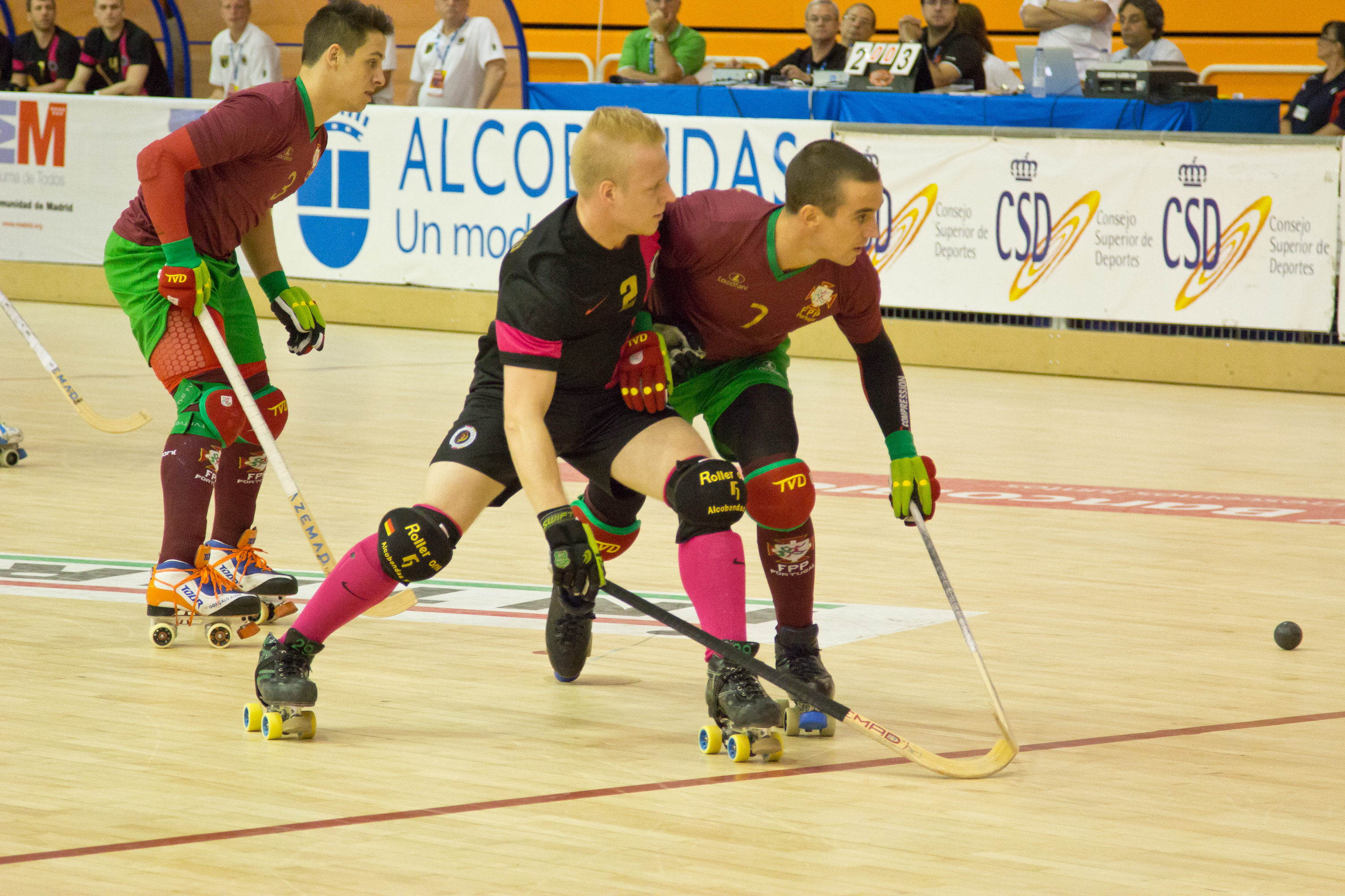 Portugal vs Germany, 2014 CERH European Championship.